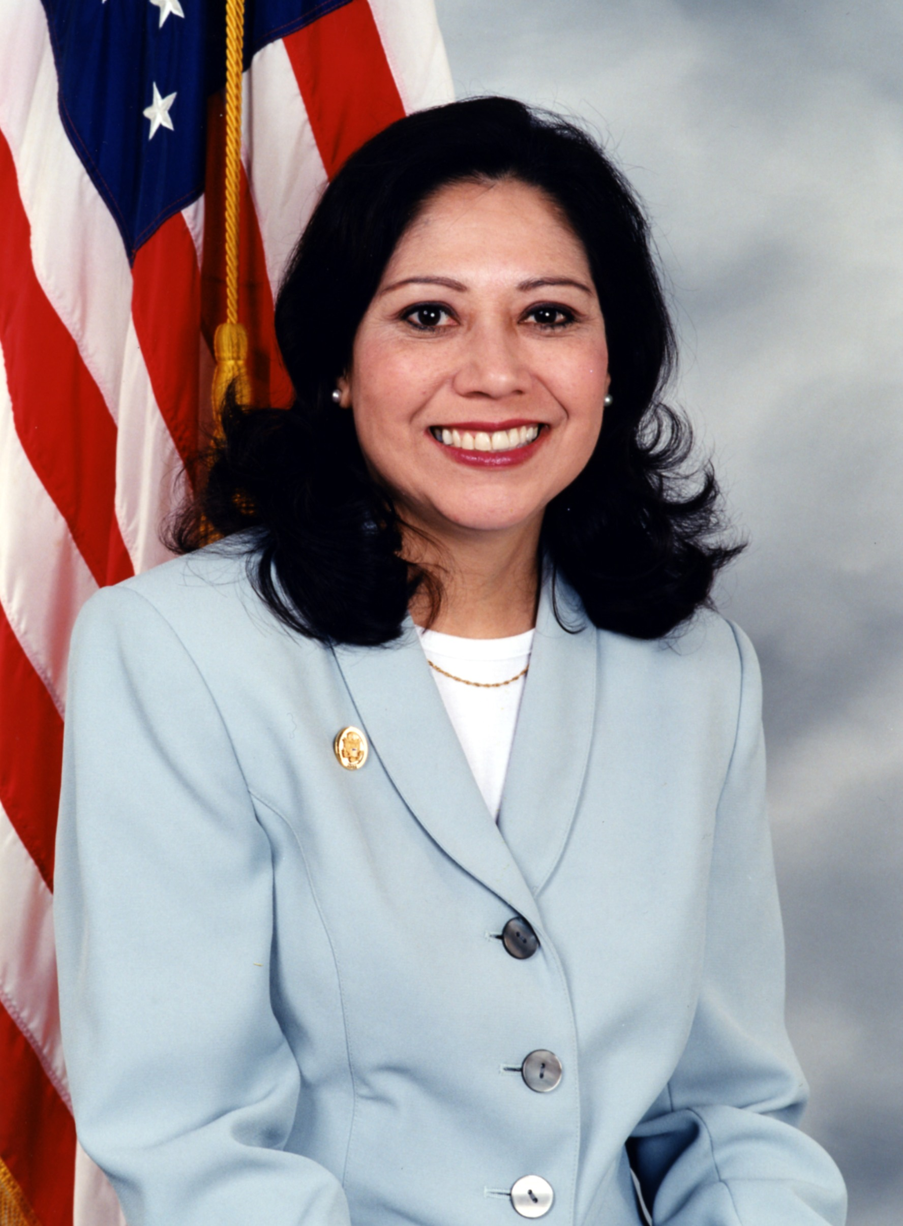 Hilda Solis, U.S. Congresswoman (D-California, 2001-present).